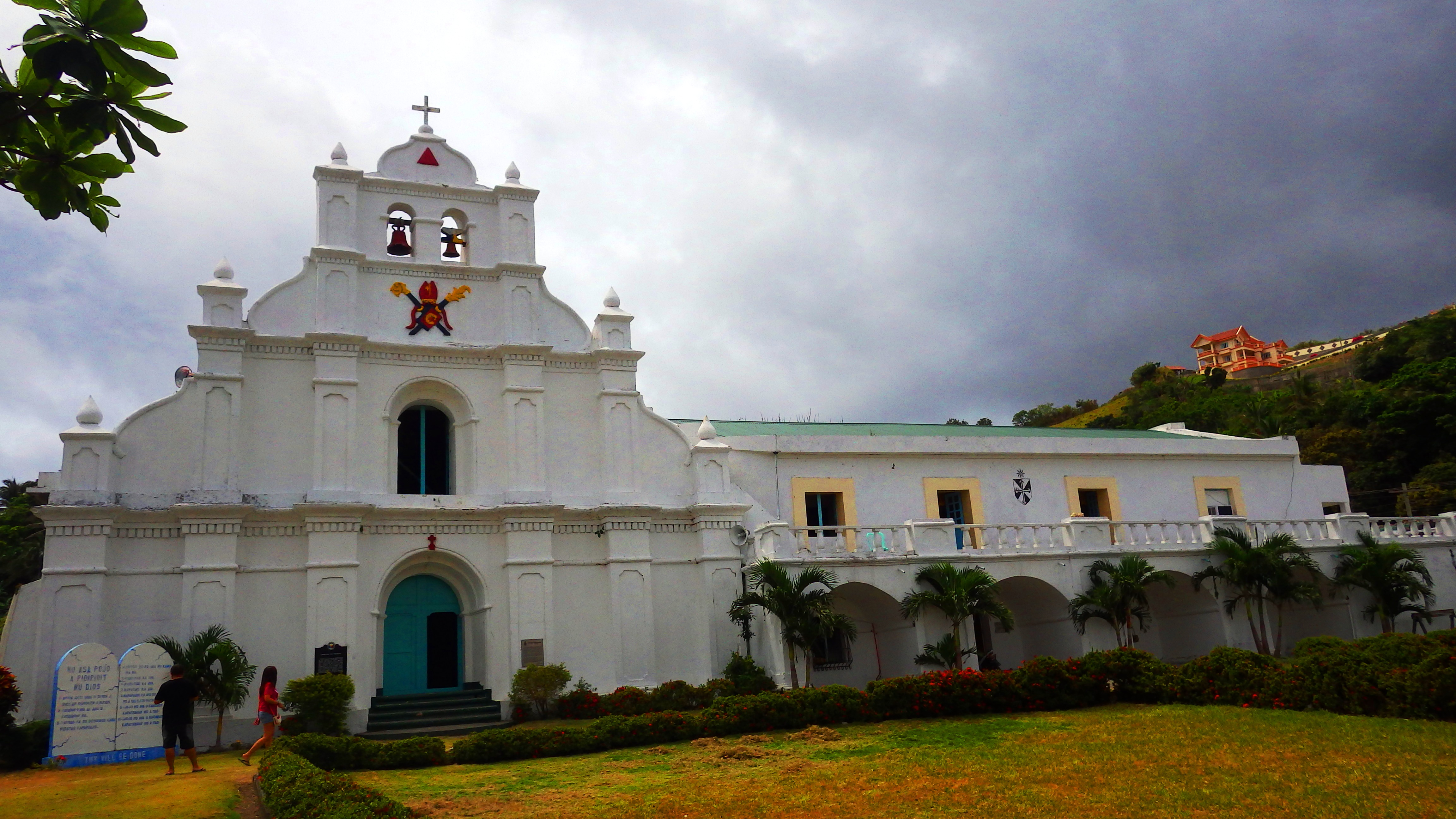 San Carlos Borromeo Church